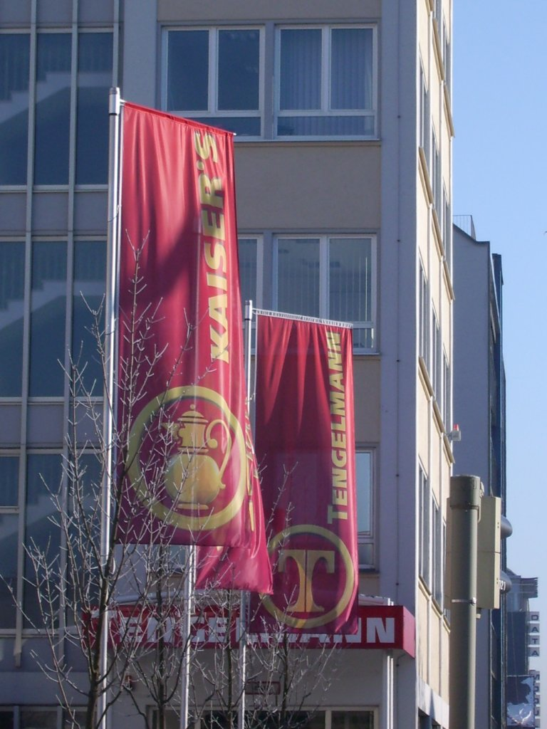 Flags in front of the "Kaiser's Tengelmann"-office in Munich, Germany.